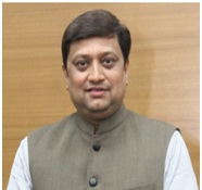 Prof Himanshu Pandya